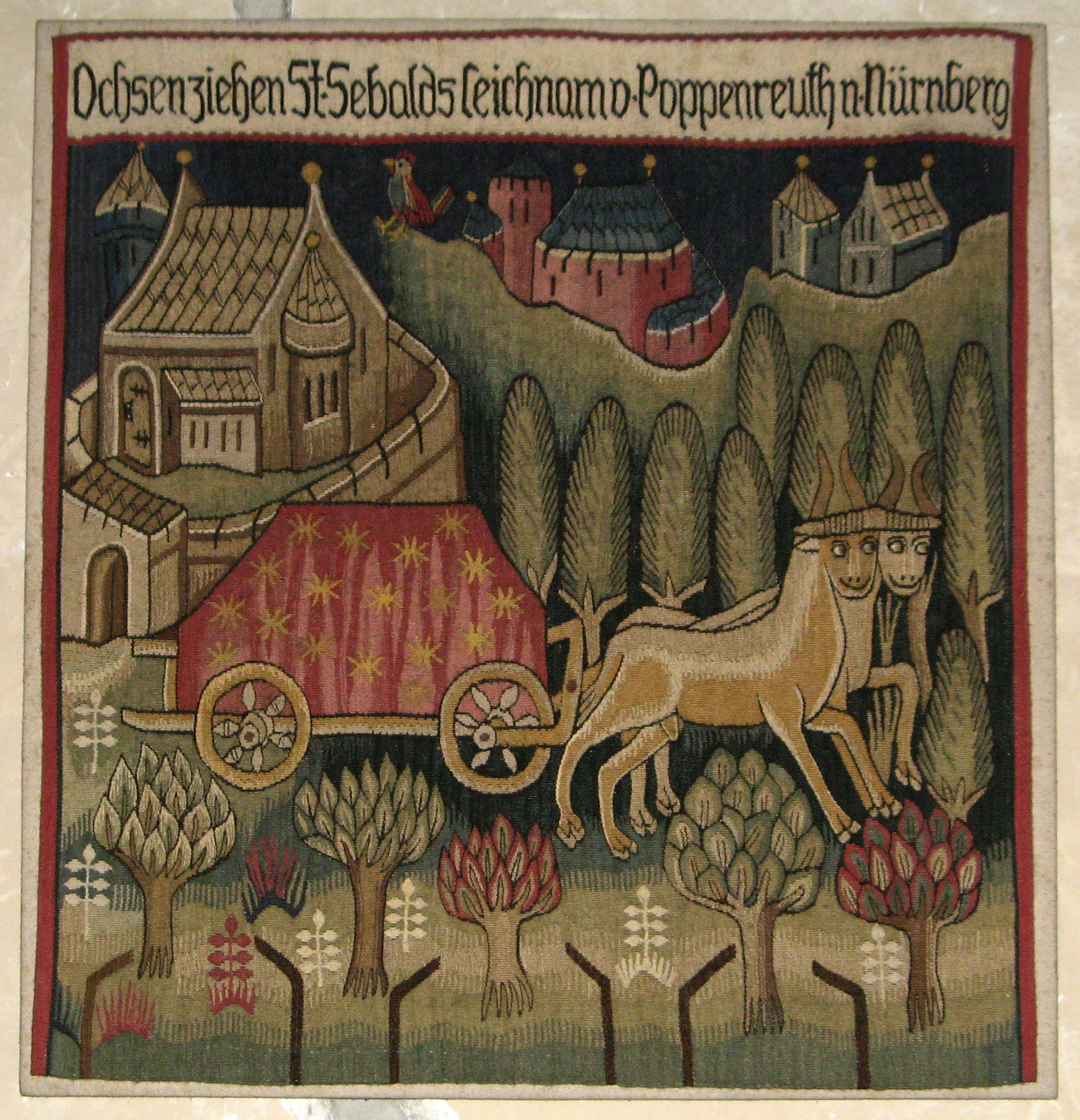 Tapestry with a depiction how the mortal remains of St. Sebaldus had been brought from Poppenreuth to Nuremberg according to a legend.